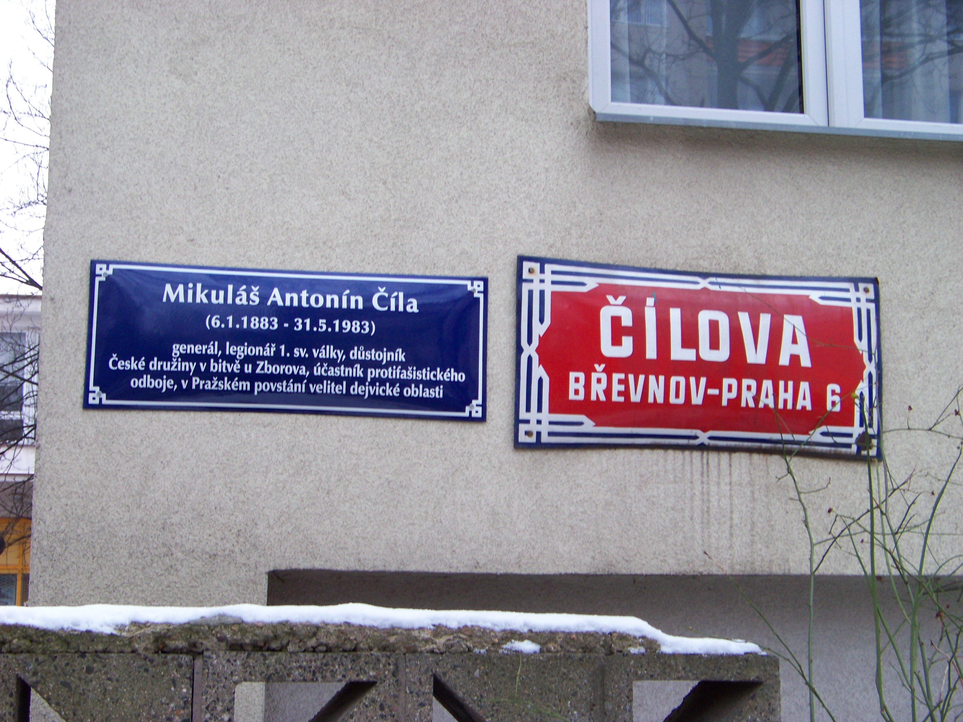 Prague-Břevnov, the Czech Republic. Petřiny Housing Estate, Čílova street, a street sign. - OpenStreetMap(Info)